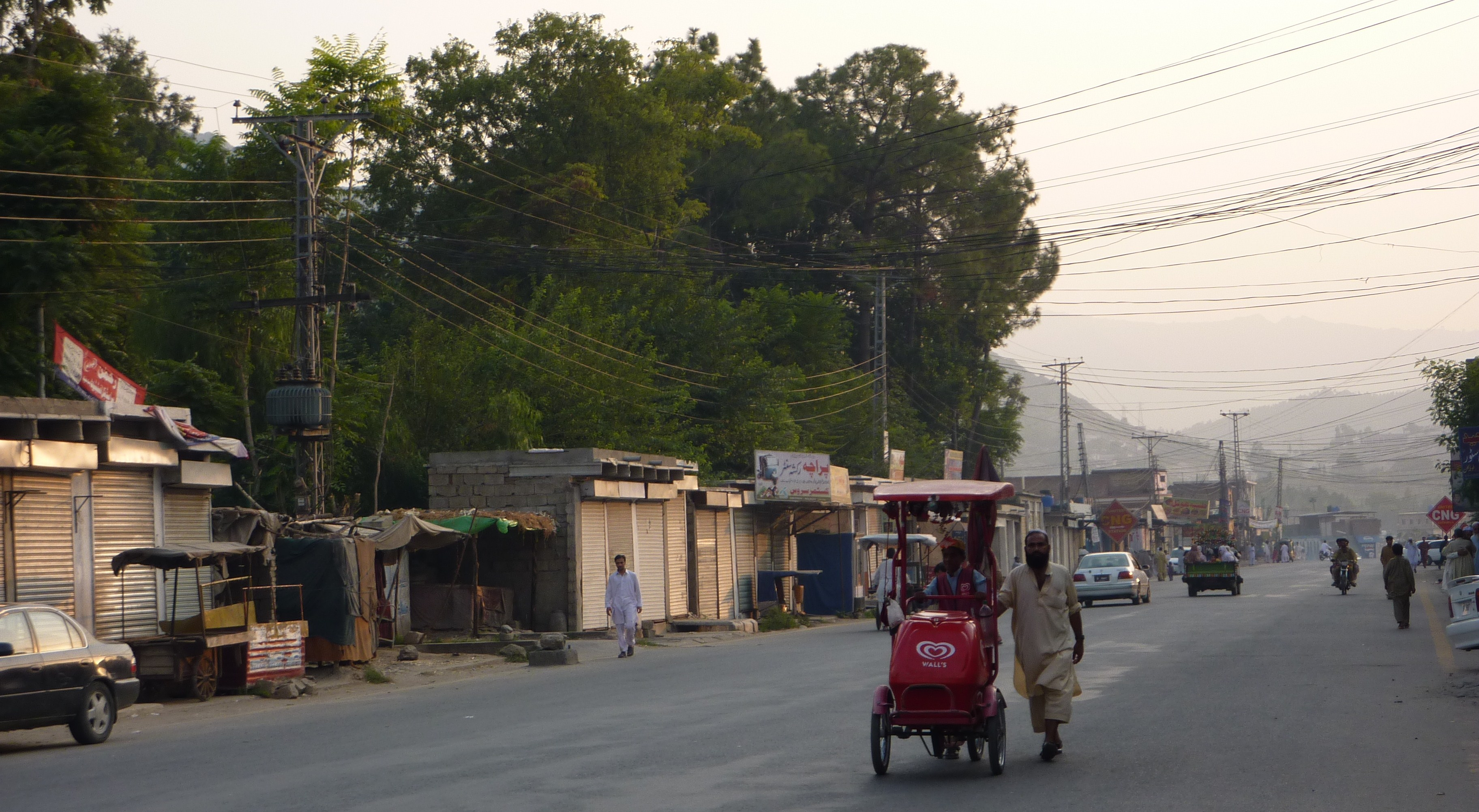 Batkhela Bazaar (Off Day)